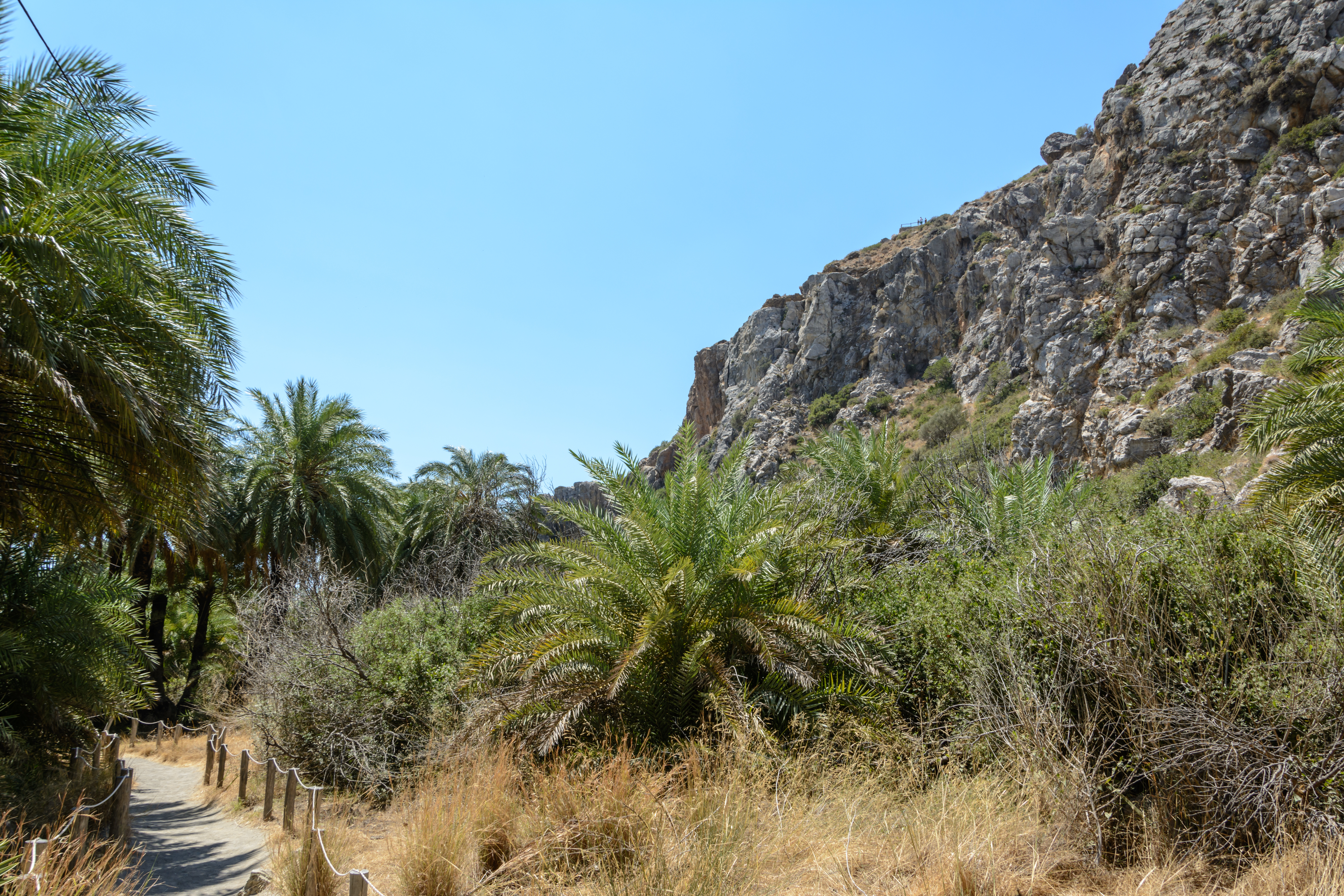 Palm forest of Preveli, Crete